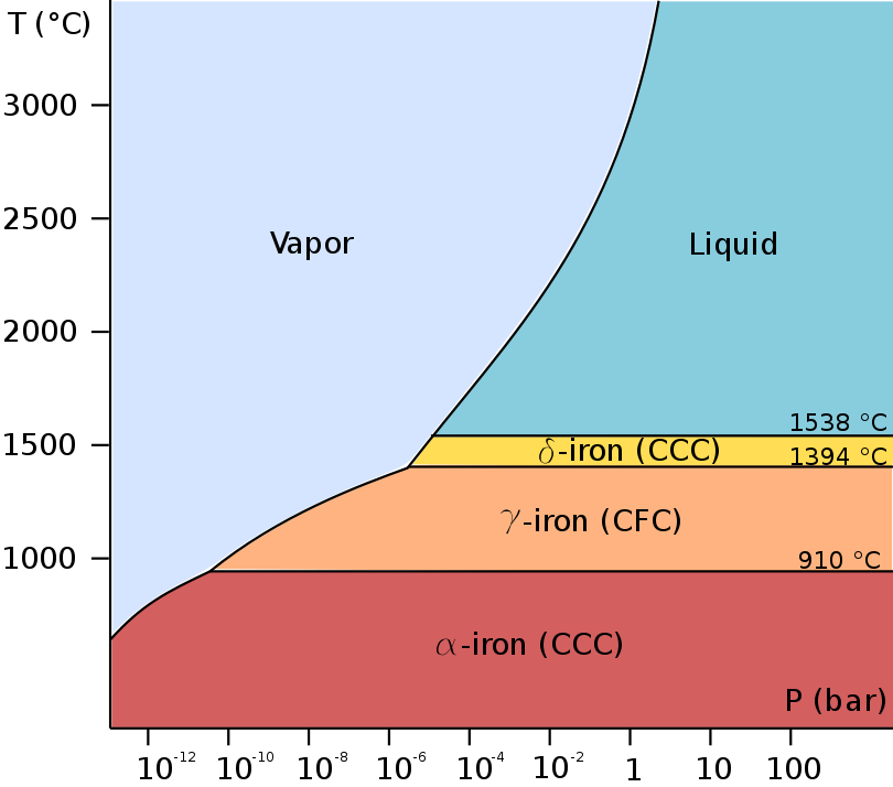 Phase diagram of pure iron